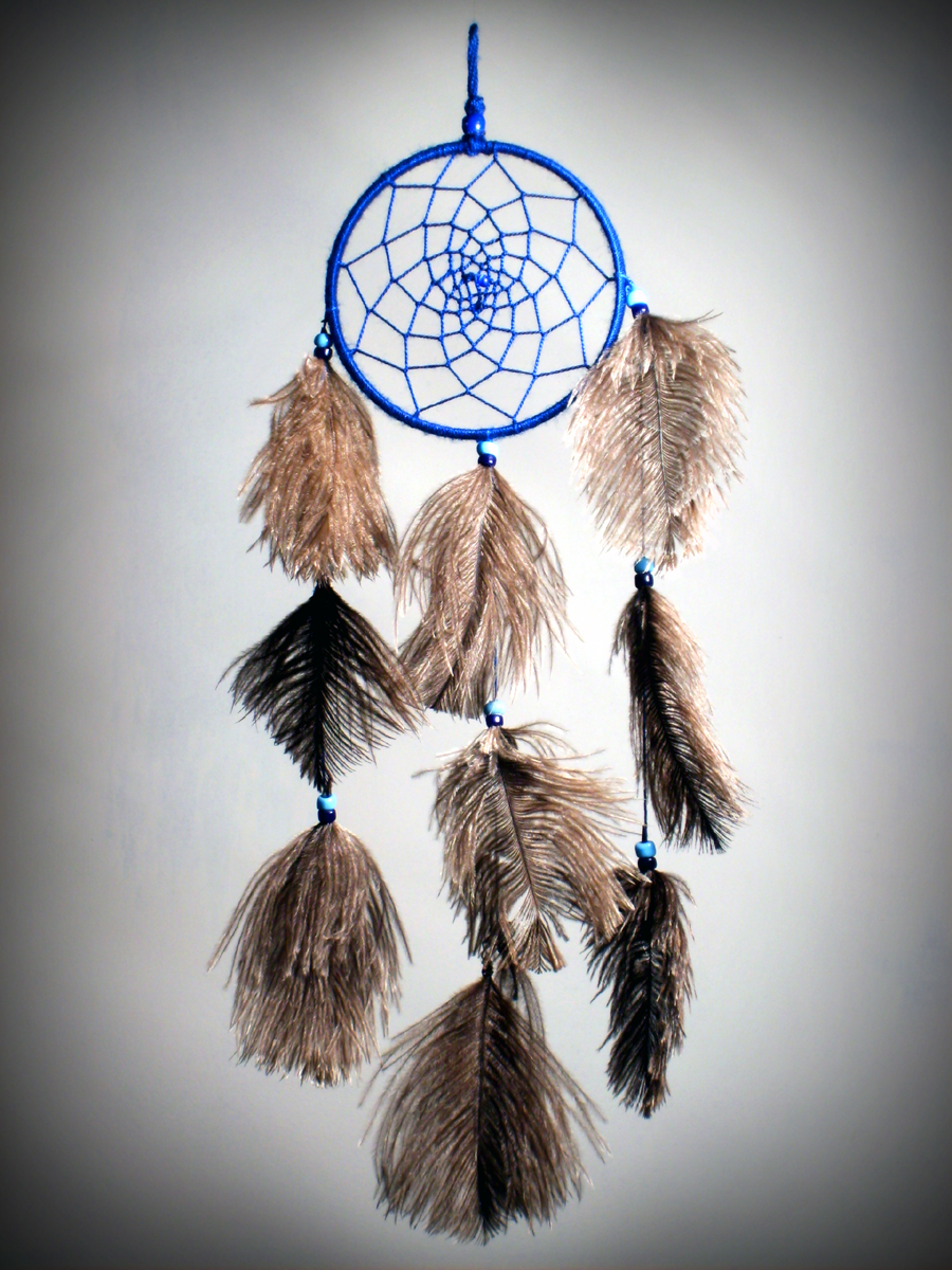 Dreamcatcher